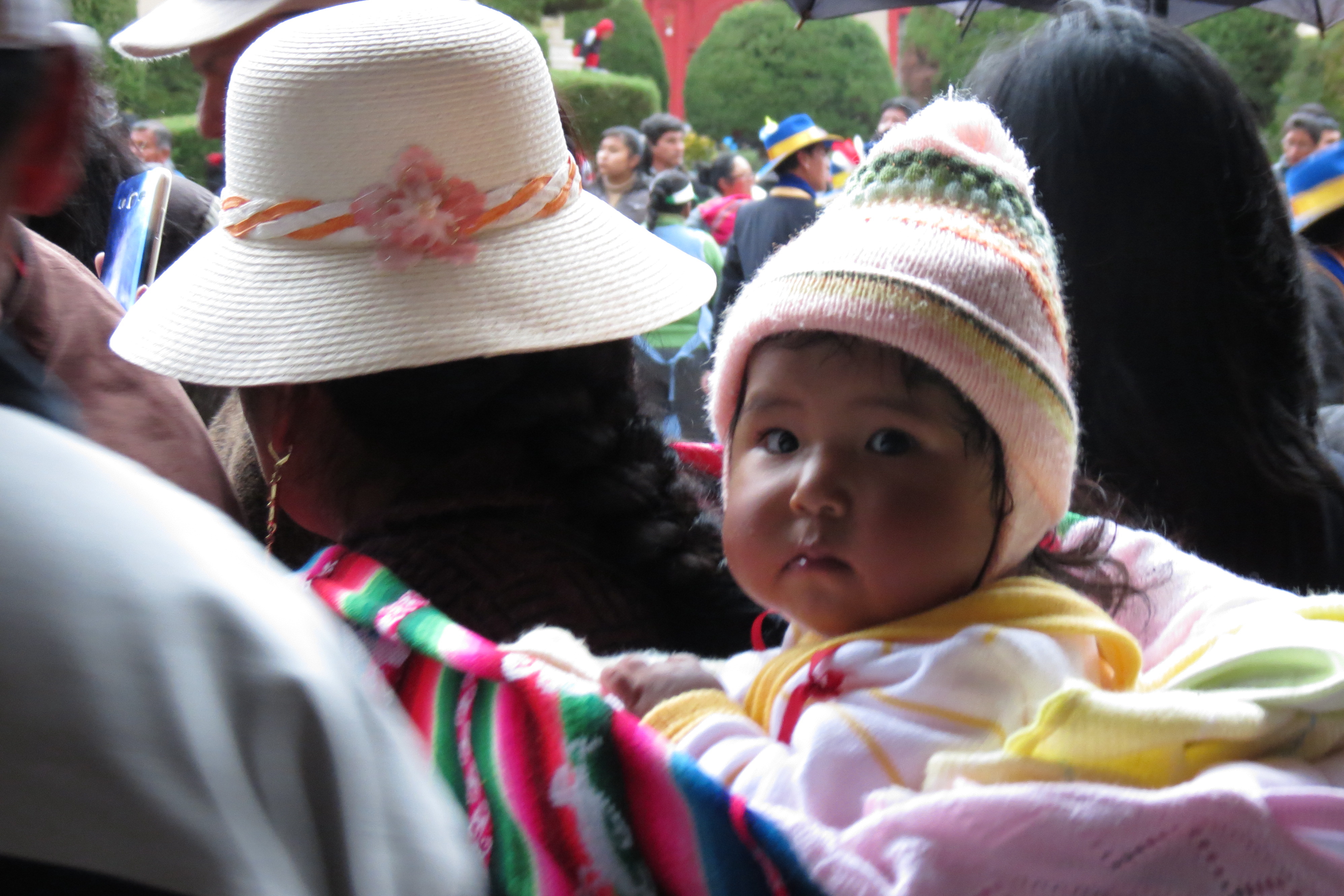 Little baby with his mother in the Virgen de la Candelaria festival